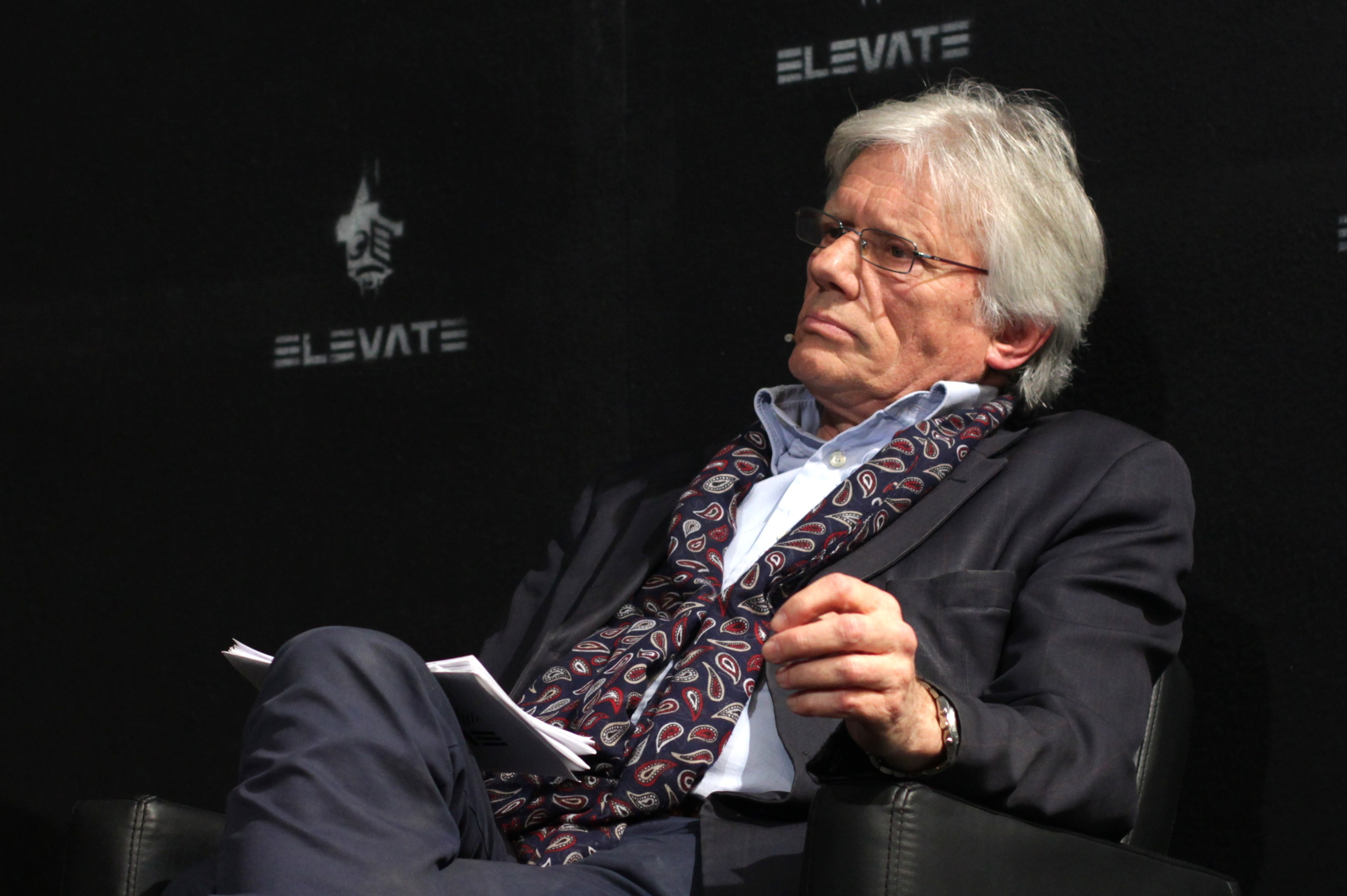 Siegfried Beer on the “Facts, Files, Shredding” during the Elevate Festival 2019 in Graz, Austria.